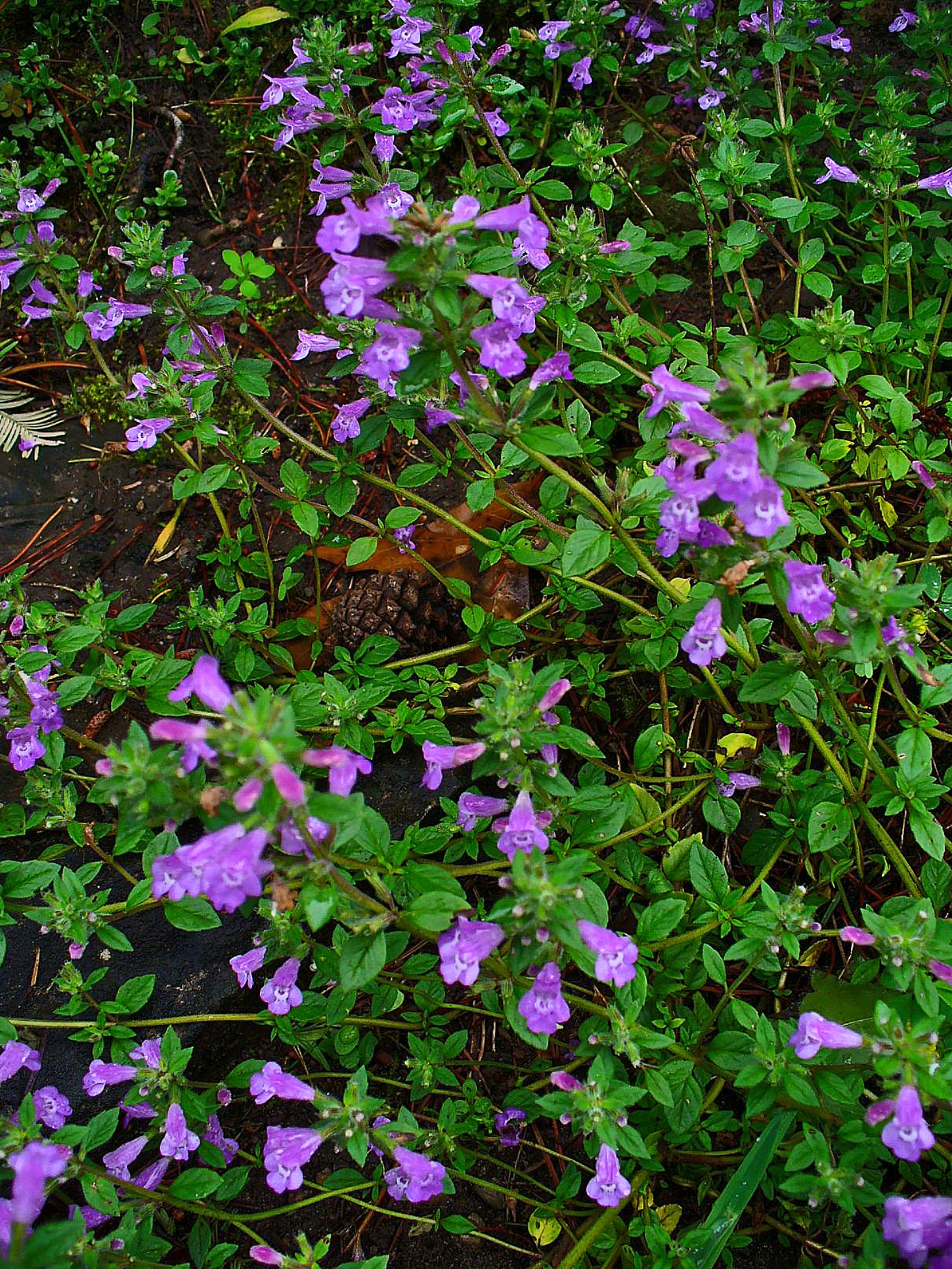 Acinos alpinus, Lamiaceae, Rock thyme, habitus; Botanical Garden KIT, Karlsruhe, Germany.